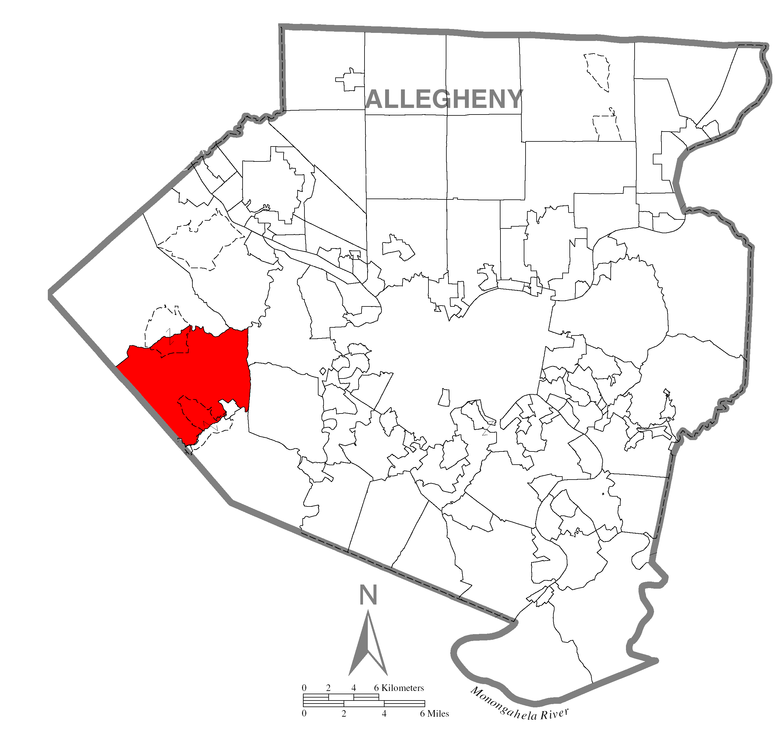 A map of Allegheny County showing North Fayette, Pennsylvania (alternate) highlighted on the map.